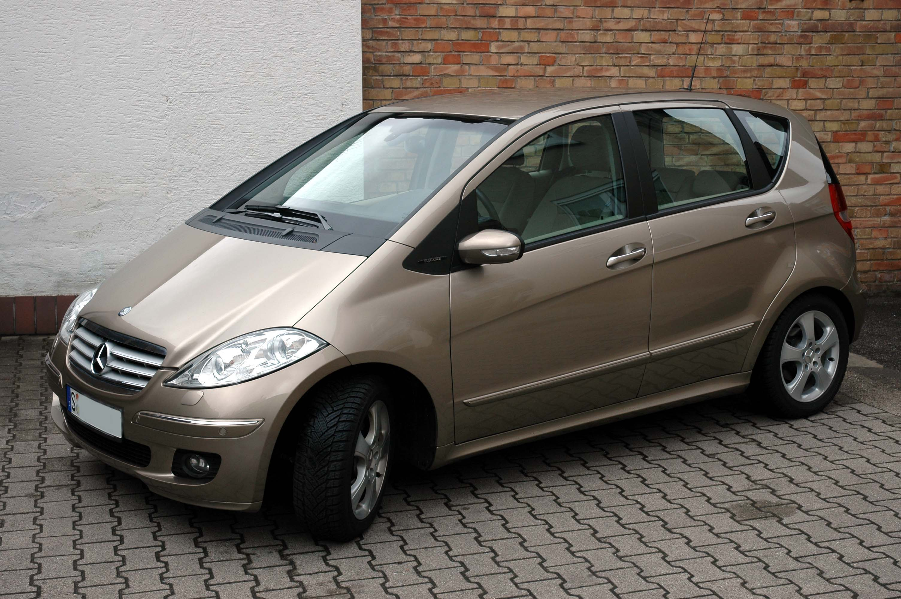 Mercedes-Benz car of type W169 ("new A-Class") A200. color: dune gold, "Elegance" line (but "Avantgarde" rims).